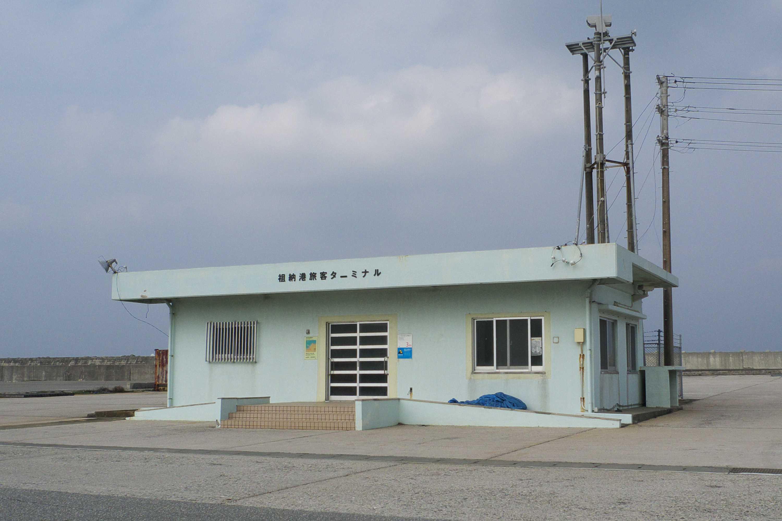 Passenger terminal at the Port of Sonai in Yonaguni Island, Okinawa Prefecture, Japan